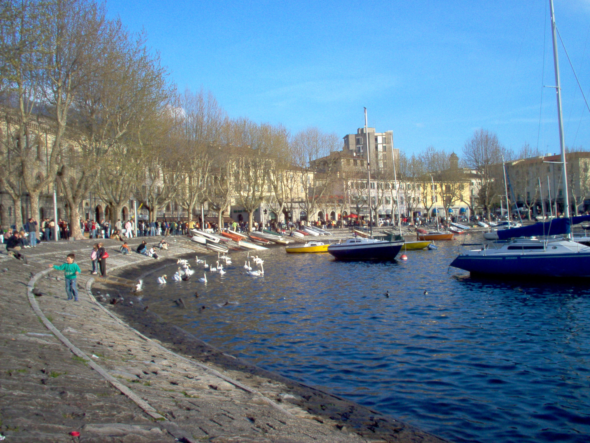 Photo taken by myself (User:GôTô) on April 16th 2006 at Lecco, Italy.